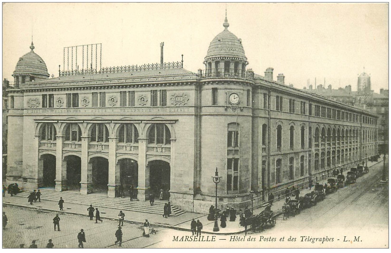 Hôtel des Postes, Marseille.